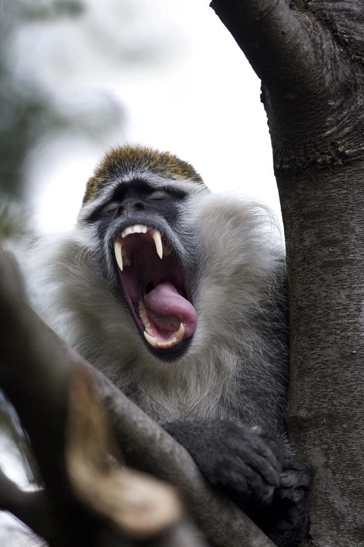 This bored fellow was sitting in a tree outside of our second floor restaurant window...